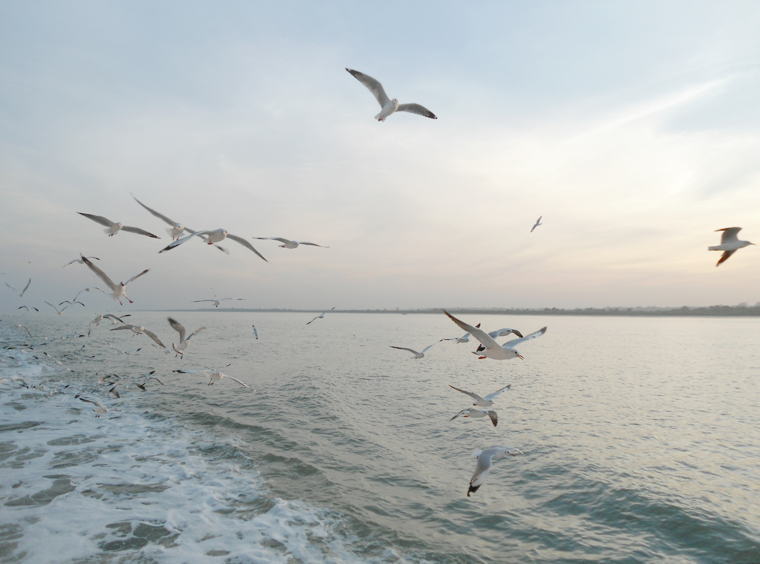 Chroicocephalus brunnicephalus off Teknaf, Bangladesh